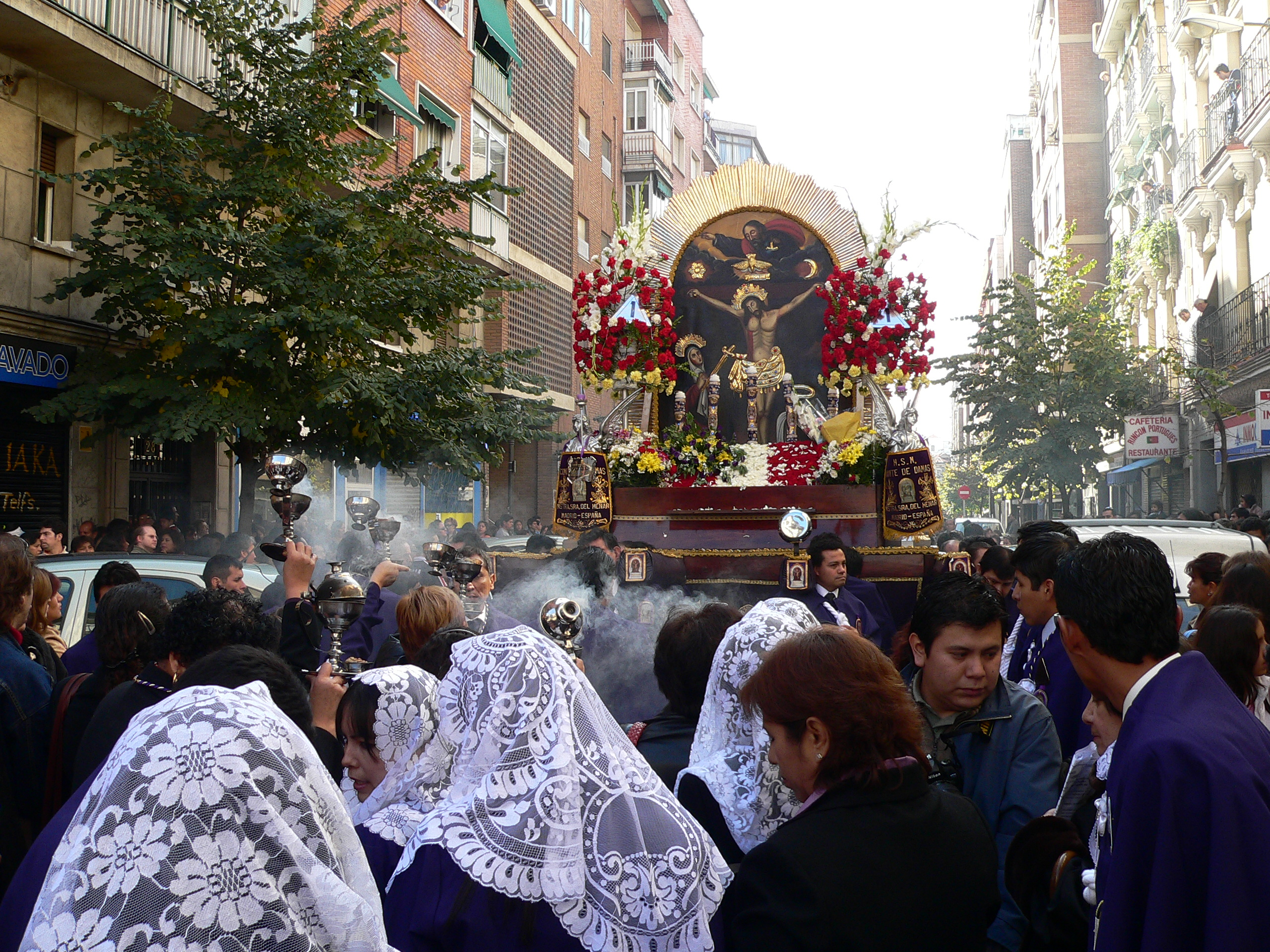 Description: Señor de los Milagros Subject: Peruvian procession City: Madrid Country : Spain Photographer: © Manuel González Olaechea y Franco Shot date : October, 23rd , 2005